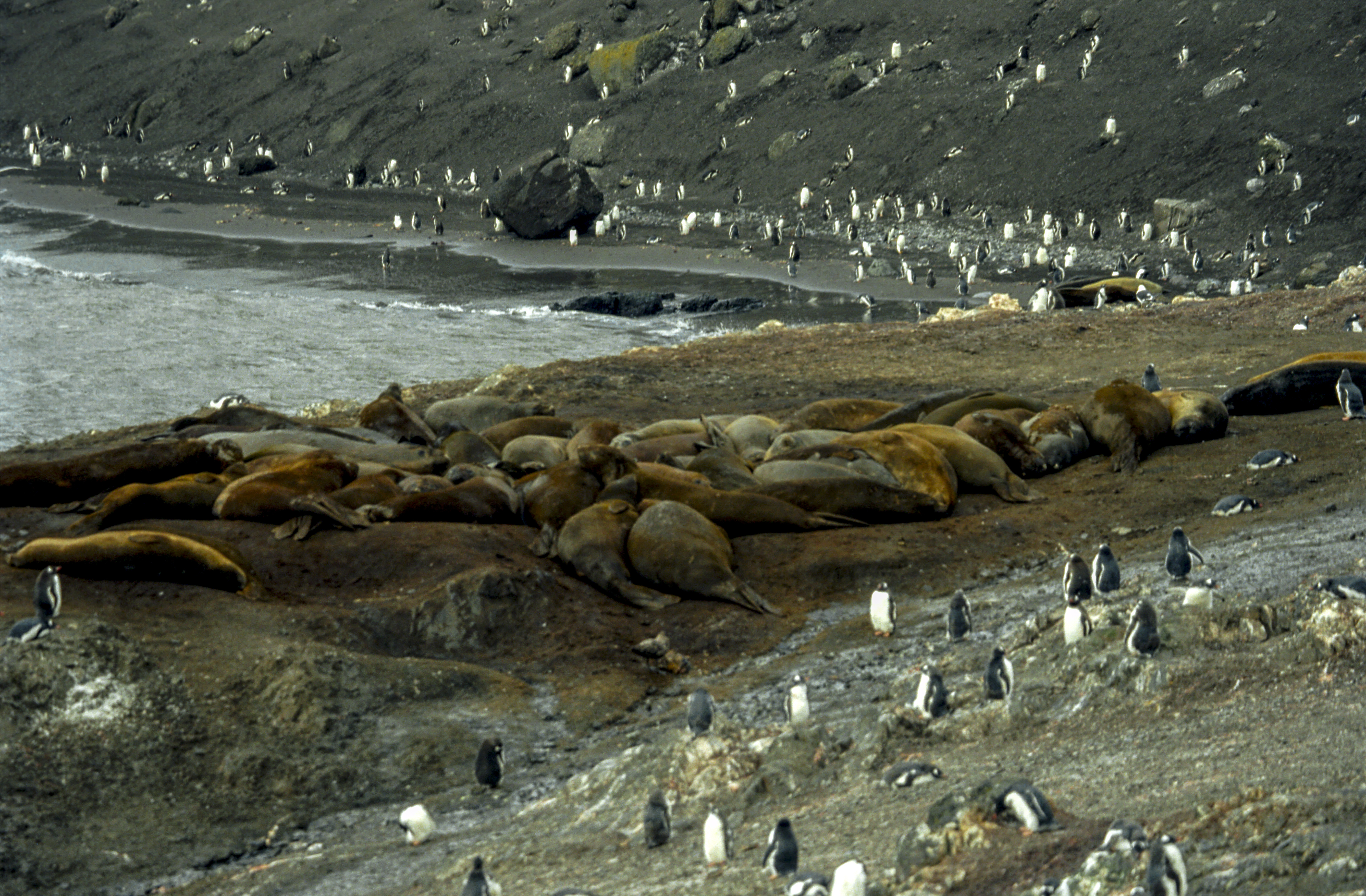 Antarctica, Elephant seal colony, Livingstone Island